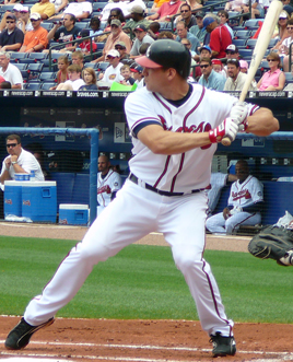 I took this photo on June 5, 2007 08:09, 8 June 2007 . . Chrisjnelson . . 268×331 (171,343 bytes)